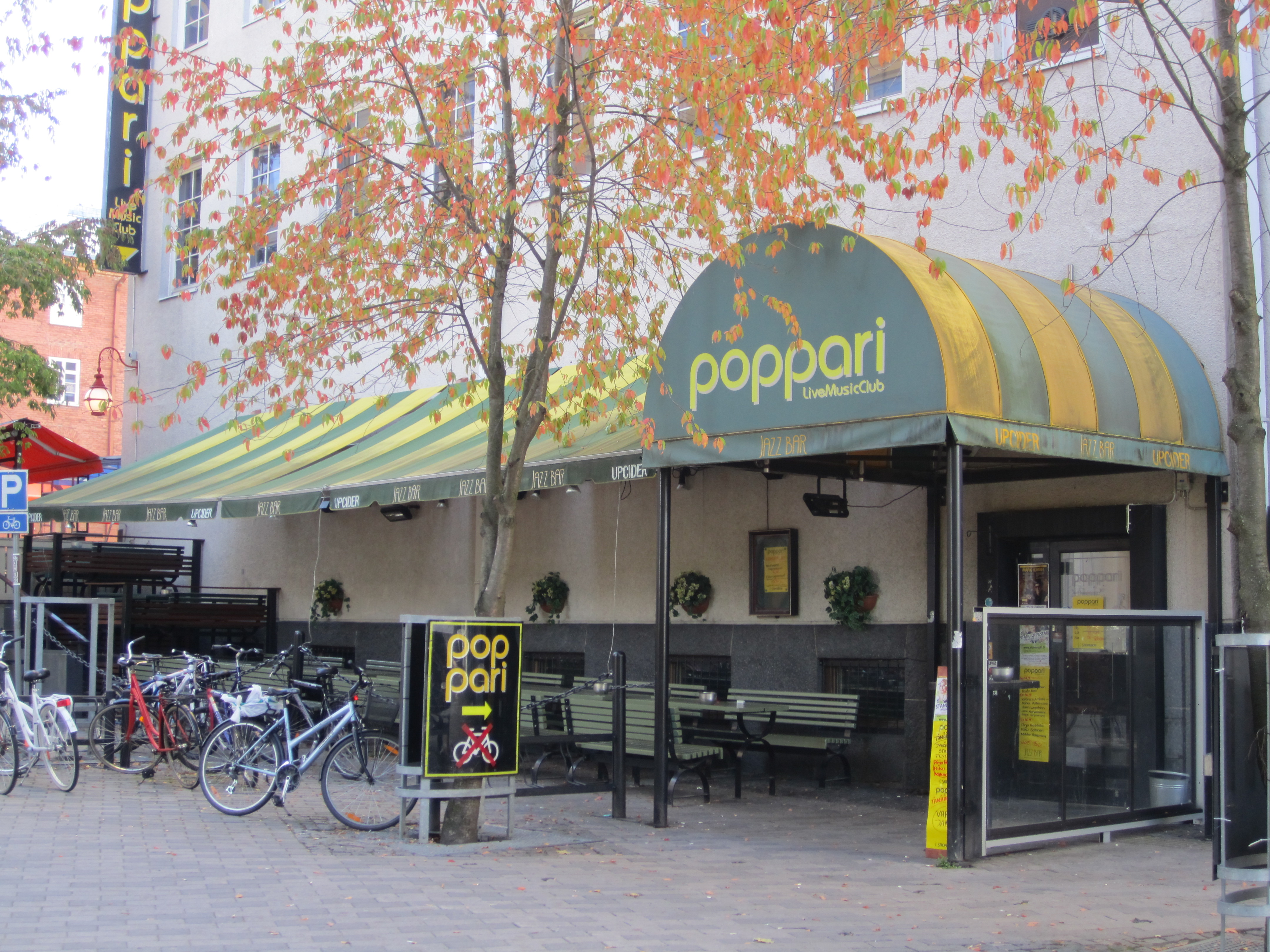 Poppari, Jyväskylä, Finland.